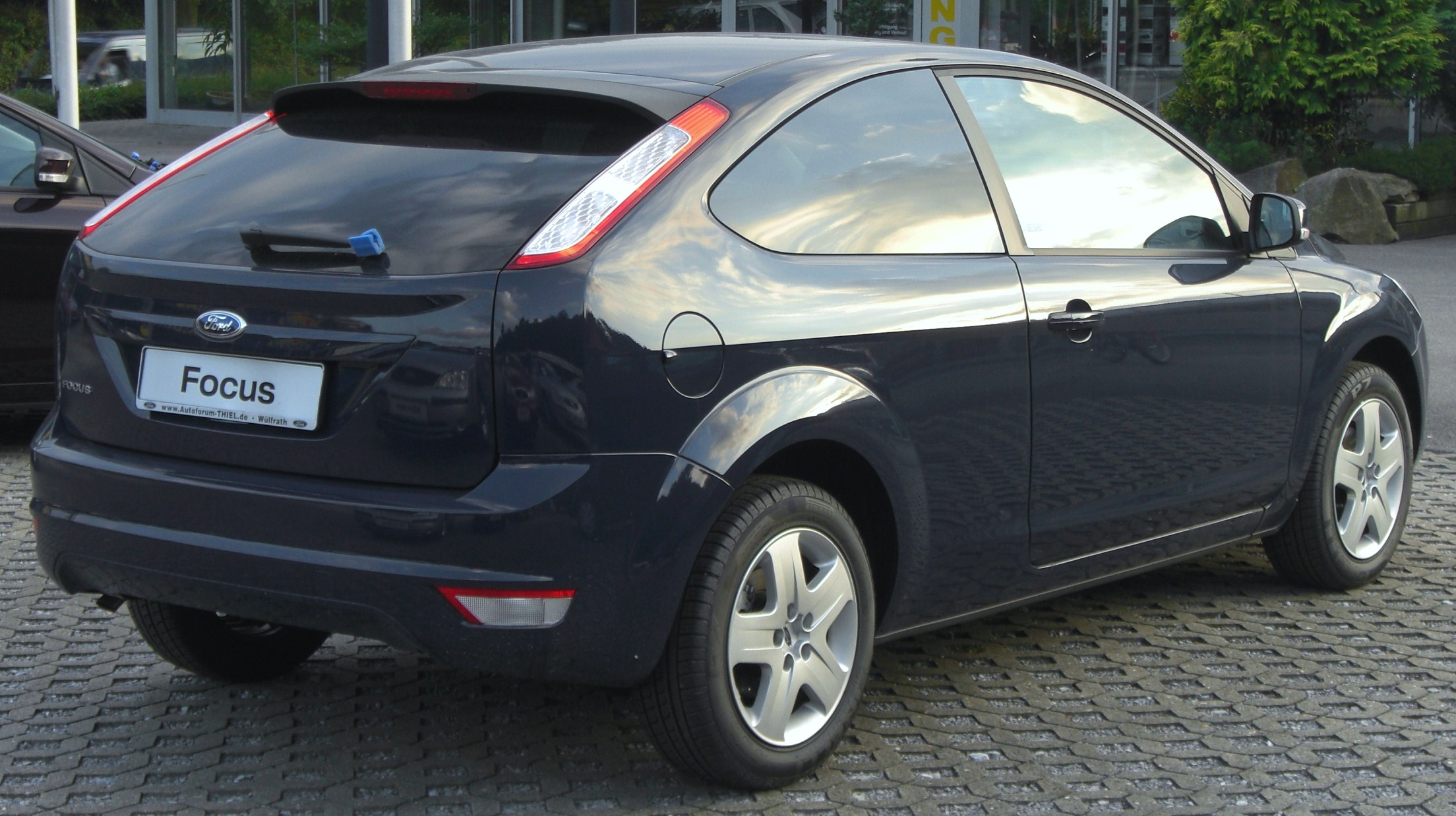 Ford Focus MkII